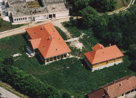 Nagyar, Hungary, aerialphotography